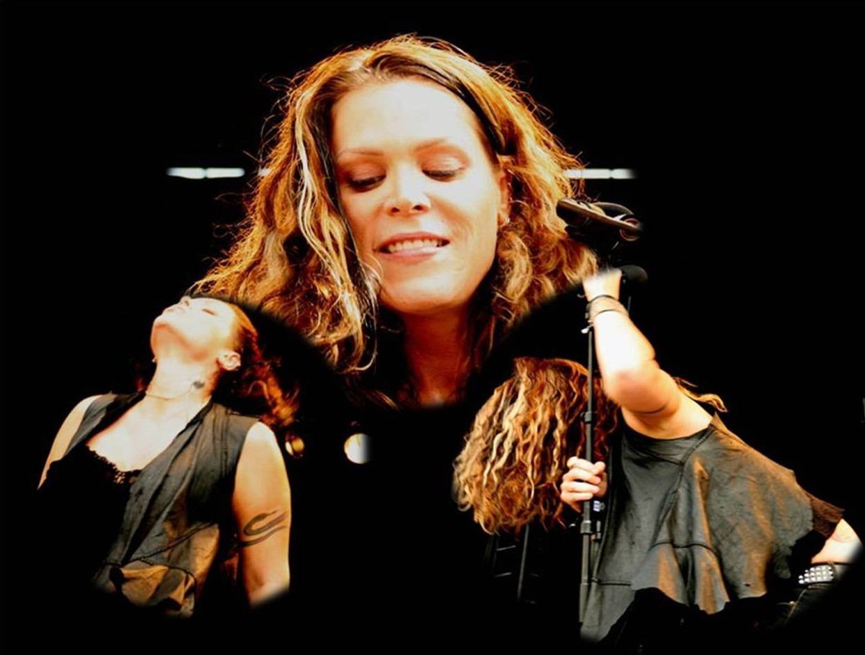 Beth Hart at Notodden Blues Festival, Norway 2009